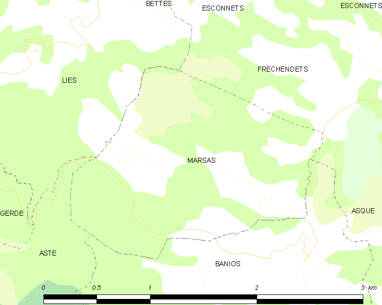 Map of French municipality